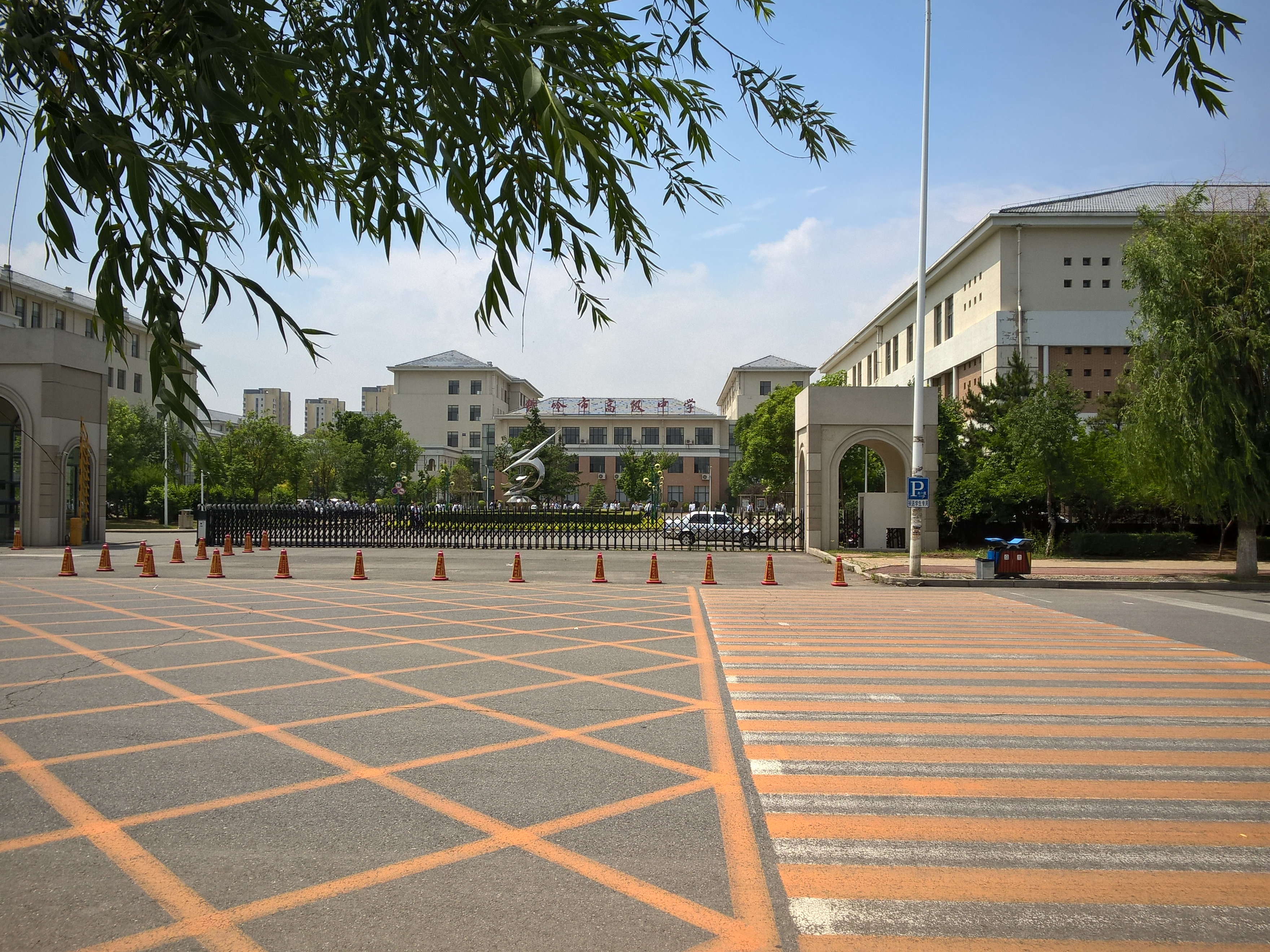 The school migrated from the old campus in Yinzhou District,Tieling City to its new campus in Fanhe Town,Tieling in 2011.